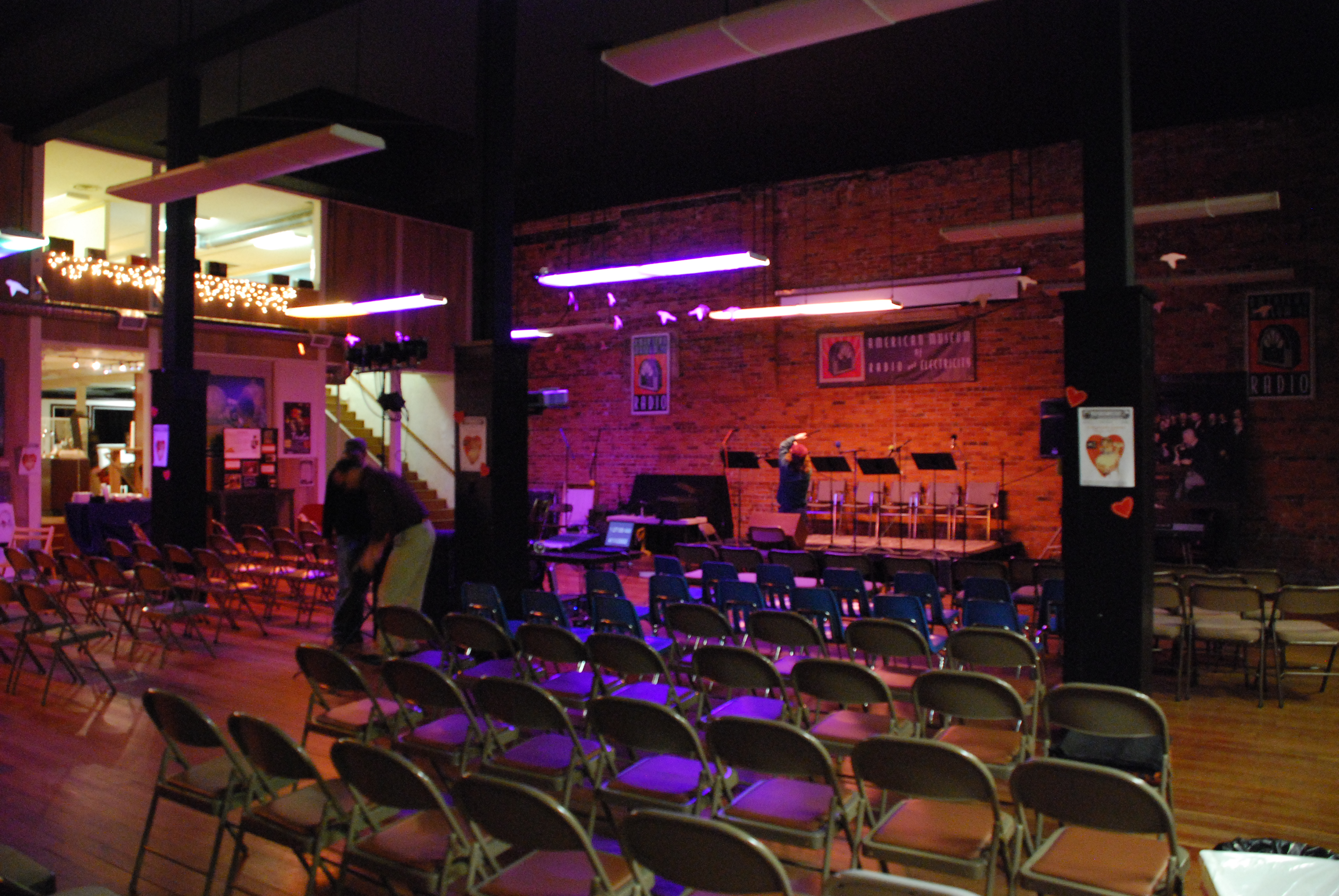 American Museum of Radio and Electricity South Bay performance space